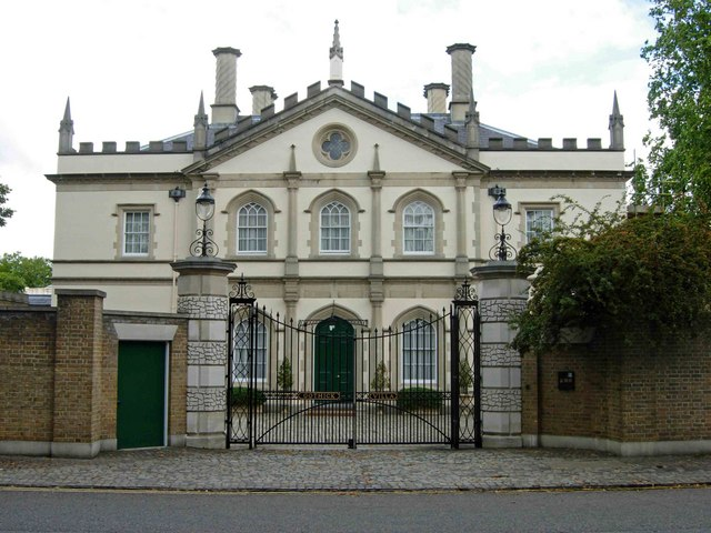 Gothick Villa, Regent's Park. This Nash-designed fairy-tale house, one of three similar villas, is on the Outer Circle just north of the Central Mosque, amongst the most exclusive addresses in London. It is protected by high walls and sturdy gates. The Regent's Canal runs at the back of the house.